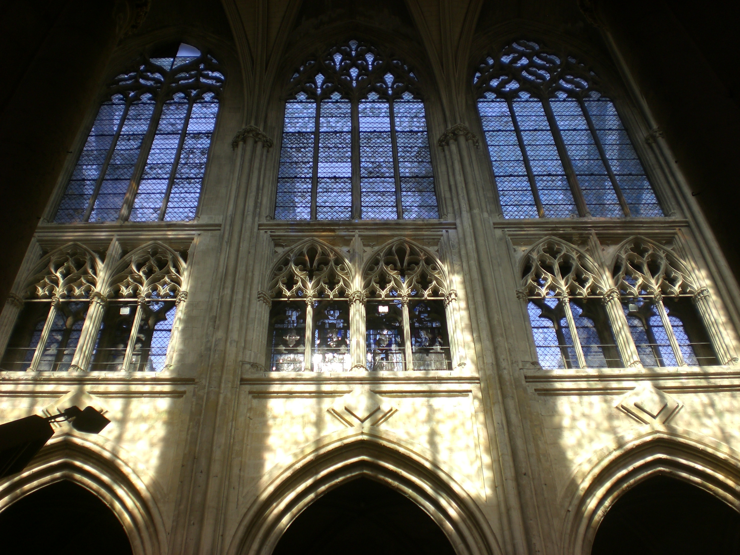 St. Gatien's Cathedral, Tours